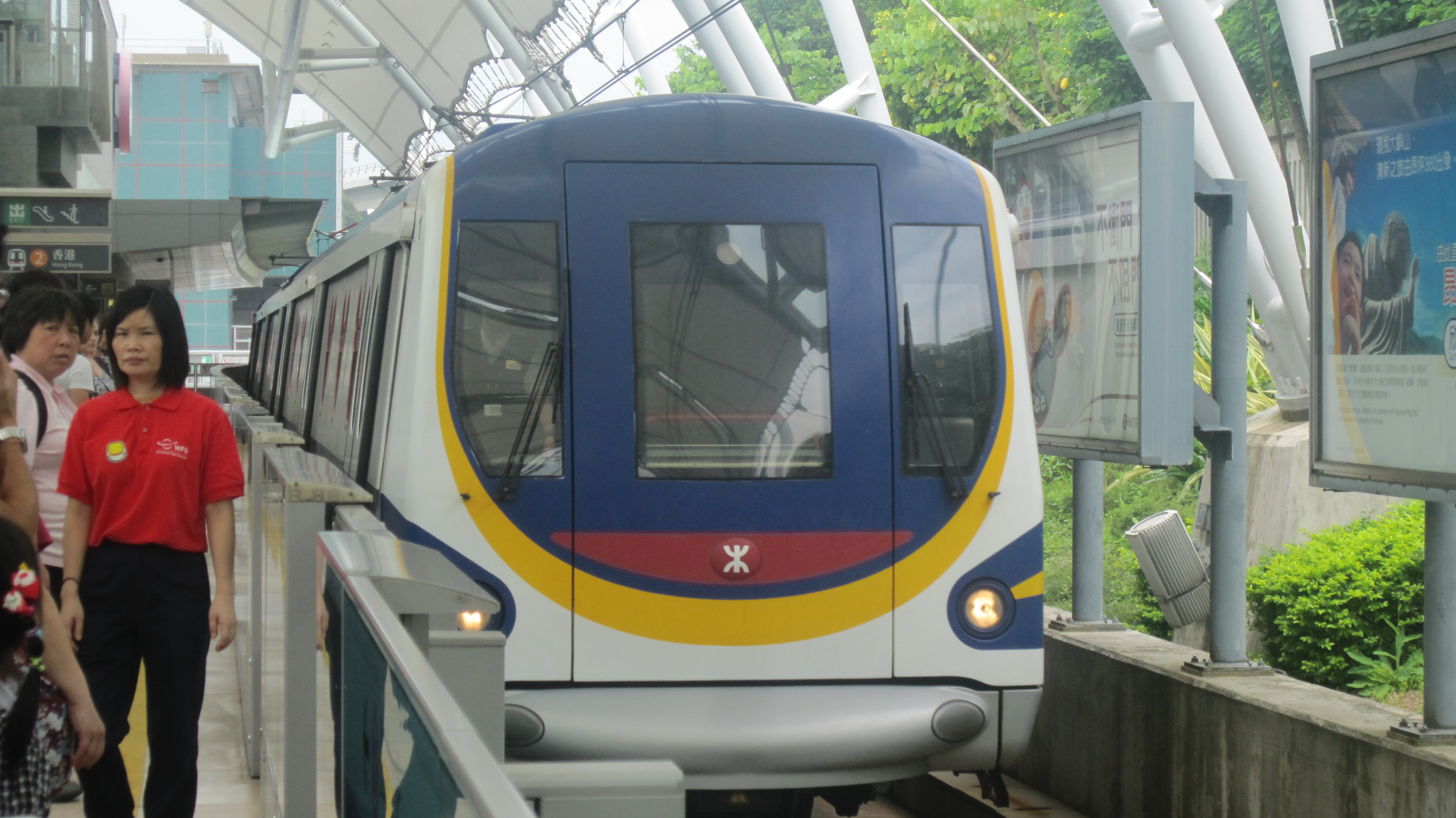 A MTR moving in Sunny Bay Station